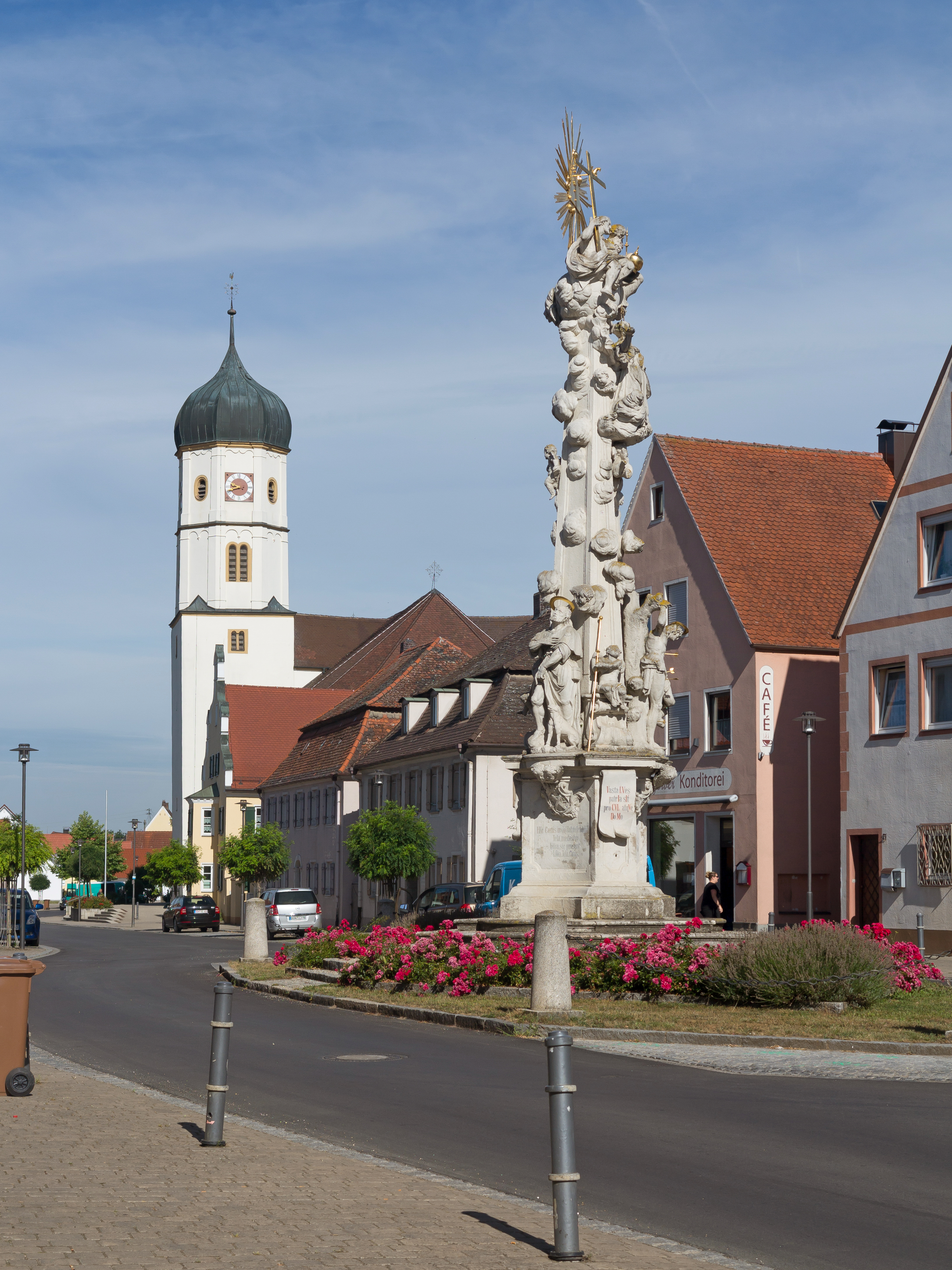 Wallerstein, monumental object (die Pestsäule) and church (die katholische Pfarrkirche Sankt Alban)This is a photograph of an architectural monument. is a photograph of an architectural monument.